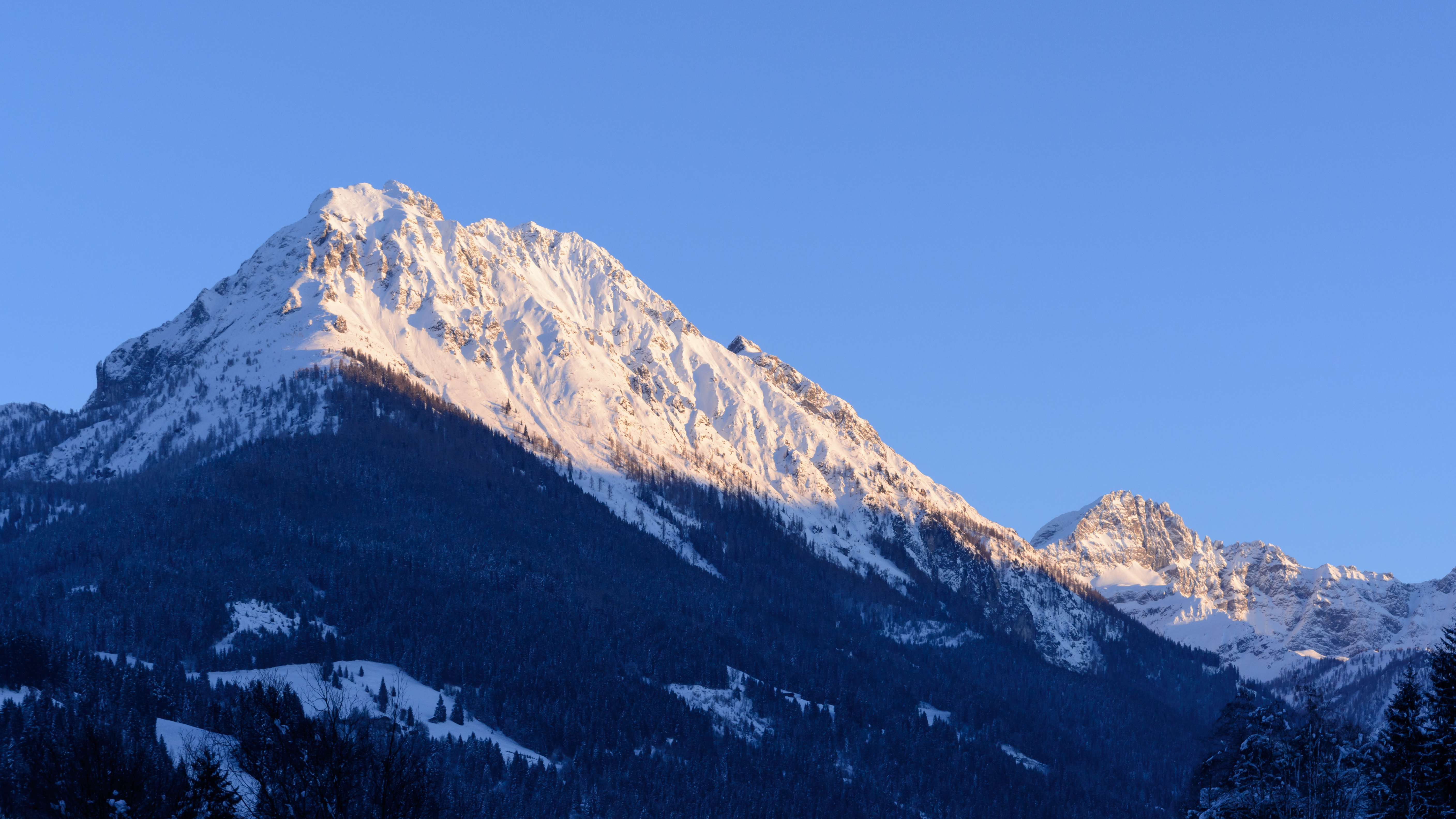 Ennskraxn (2,410 metres (7,910 ft)) and Kraxenkogel (2,436 metres (7,992 ft)) near Kleinarl, federal state of Salzburg, Austria